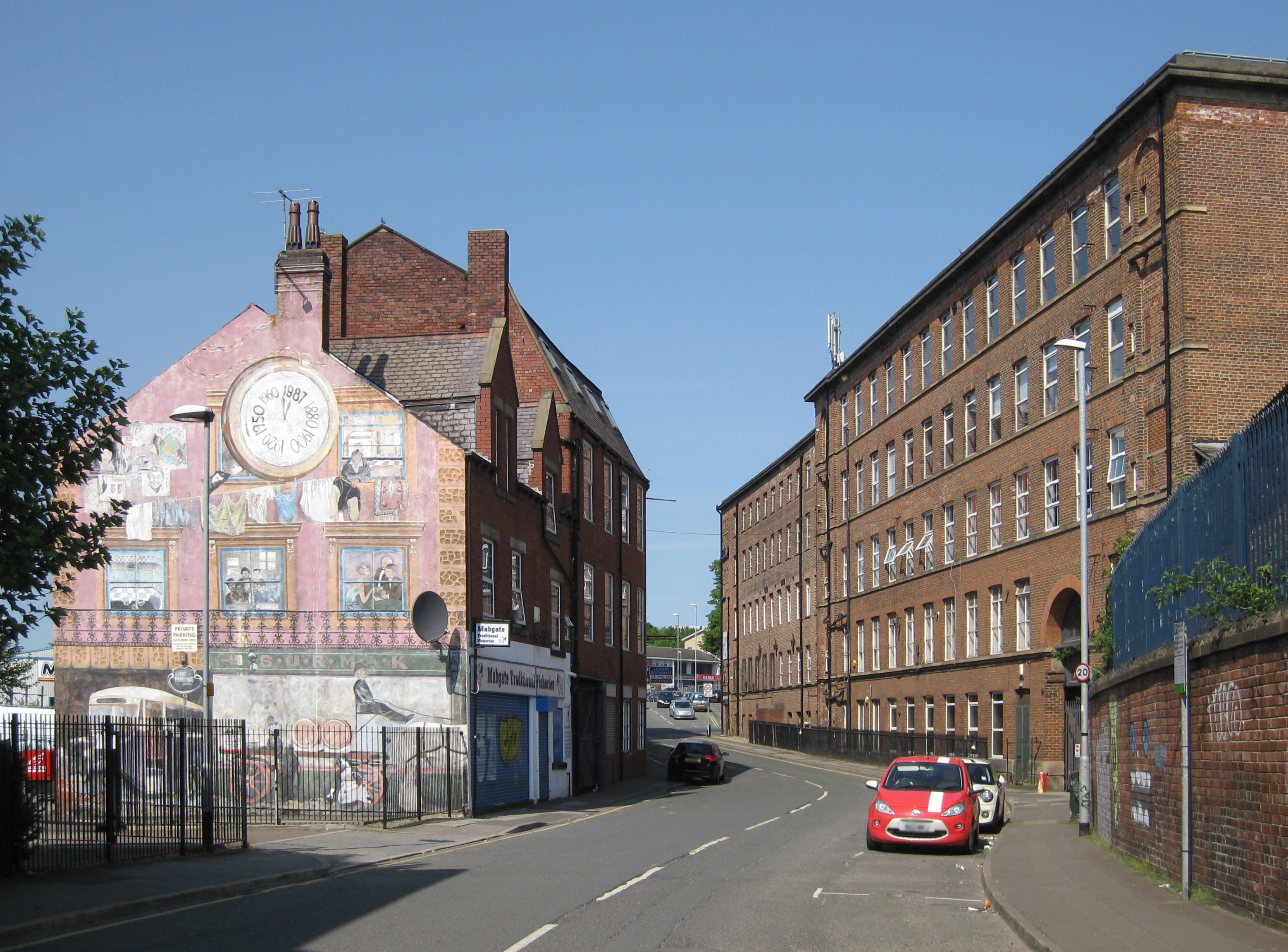 Mabgate, showing mural and Mabgate Mills. Looking west to the junction with Lincoln Green Road, Skinner Lane